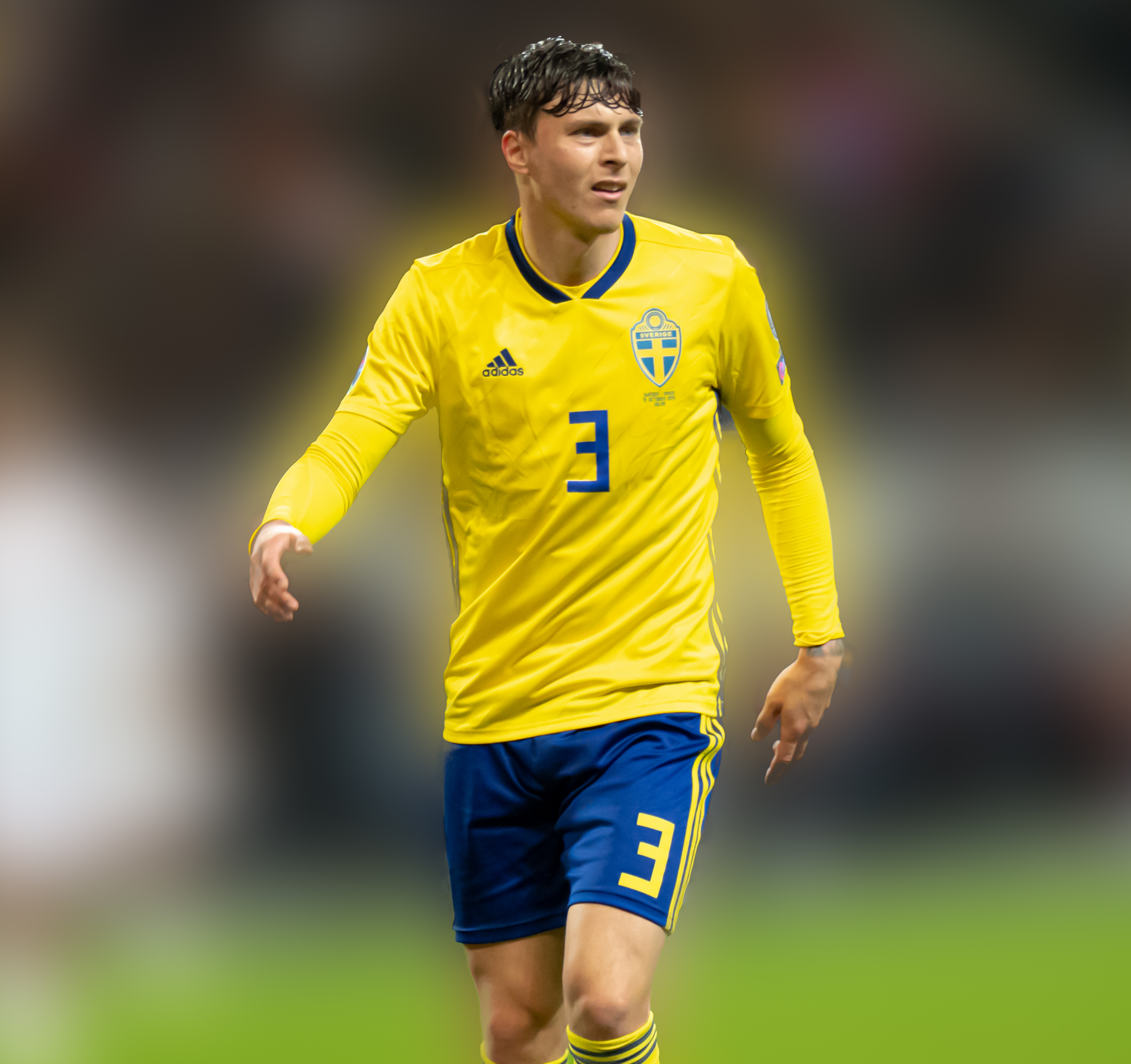 UEFA_EURO_qualifiers_Sweden_vs_Spain_20191015